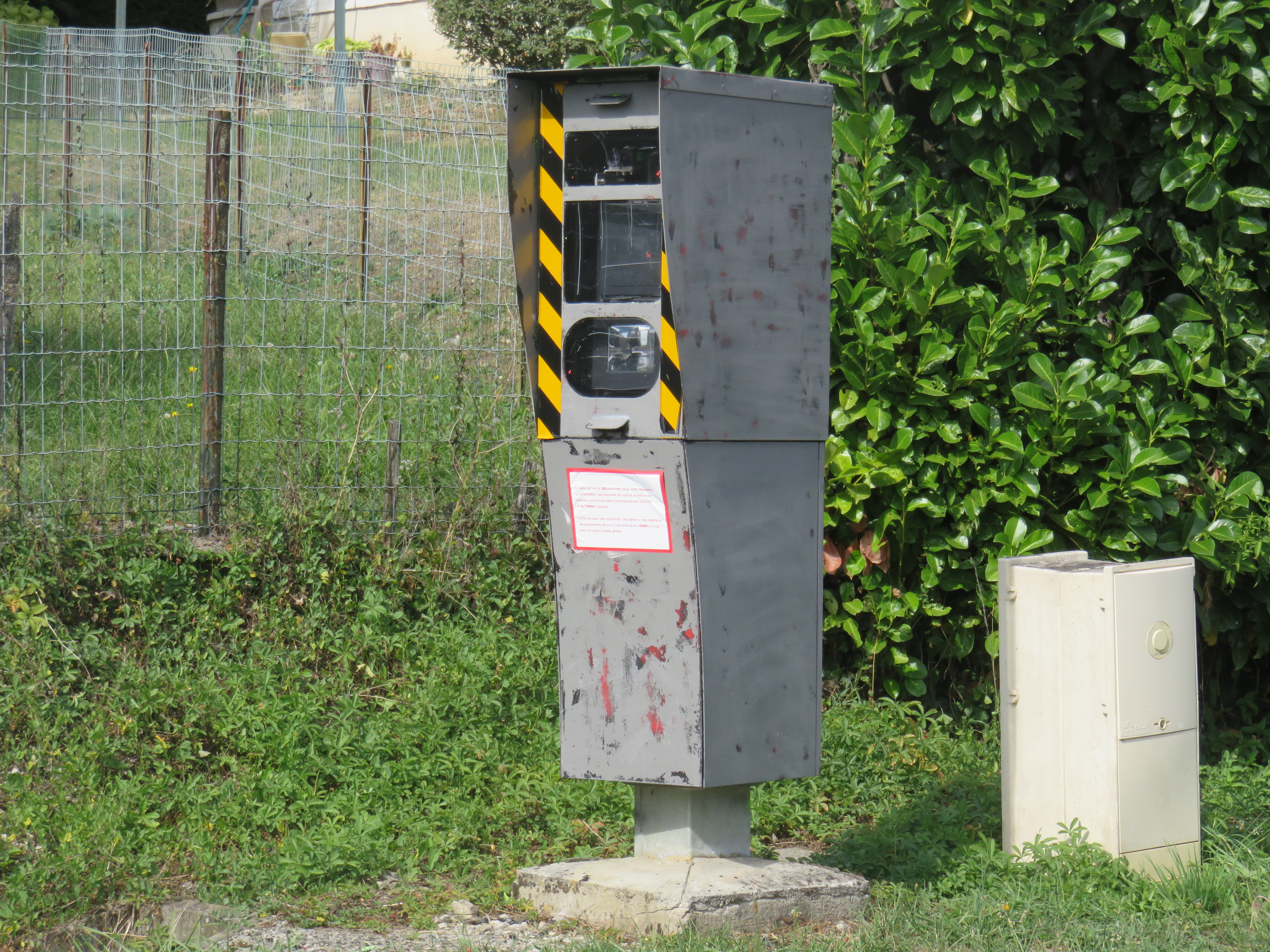 An speed camera establish in the D37 (Béon, France) on September 9, 2018.